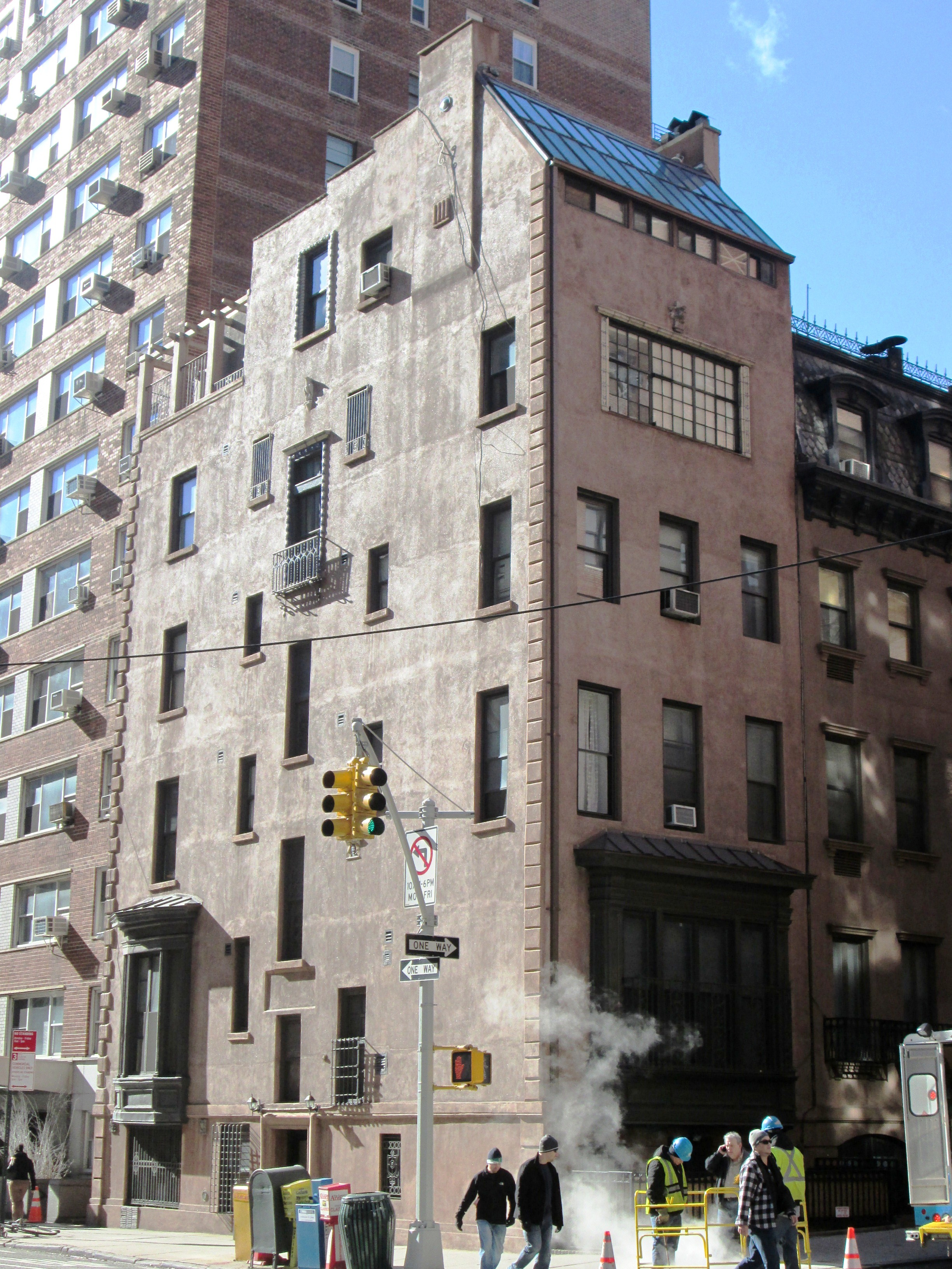 130 East 37th Street (290-292 Lexington Avenue) at the corner of Lexington Avenue in the Murray Hill neighborhood of Manhattan, New York City was built c.1868-60 and was designed by John C. Prague. The building was subsequently altered numerous times. It is located within the Murray Hill Historic District Extension. (Source: "NYCLPC Murray Hill Historic District Designation Report")